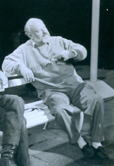 Ranko Munitić (1943-2009), standing, with Želimir Žilnik & Dušan Makavejev, TVNS 1989